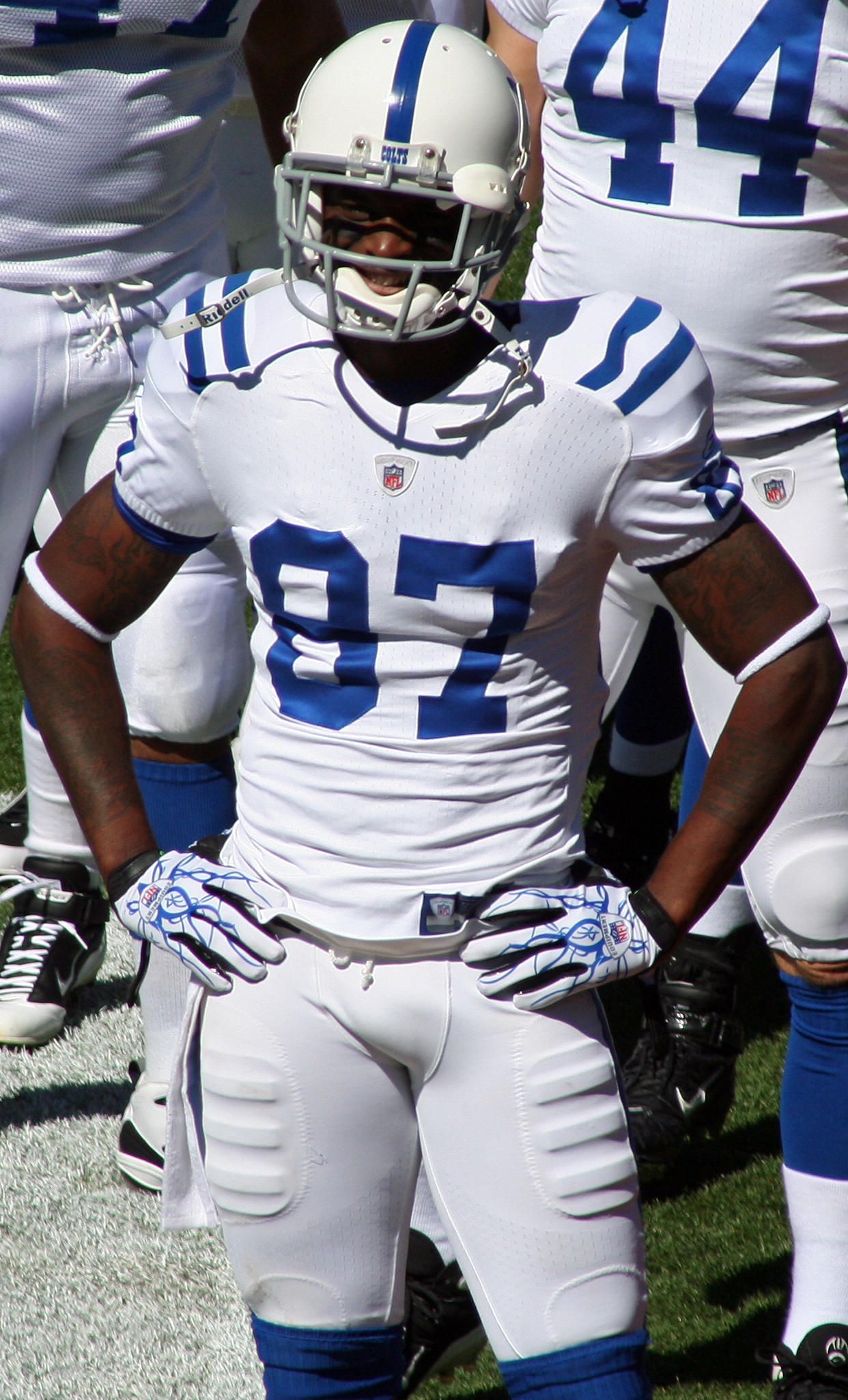 Reggie Wayne, a player on the Indianapolis Colts American football team.